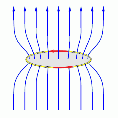 Principles of magnetic flux compression - third phase Inspired by a drawing in a document from Los Alamos National Laboratory